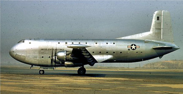 Douglas C-124A-DL Globemaster II 51-144 Later was converted to C-124C. To MASDC as CQ0148 Nov 12, 1970